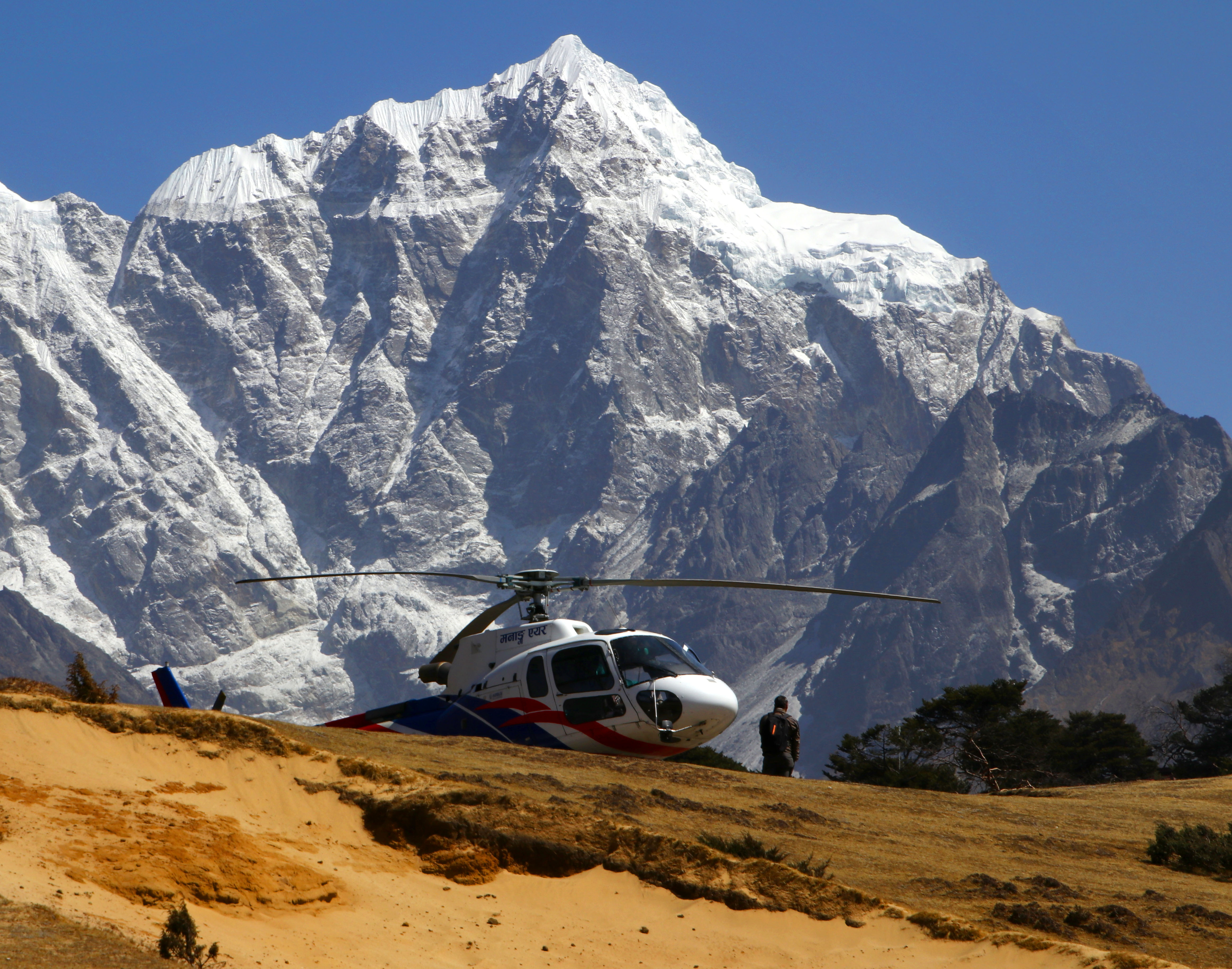 Namche Bazaar. Taboche seen on the way to Hotel Everest View.